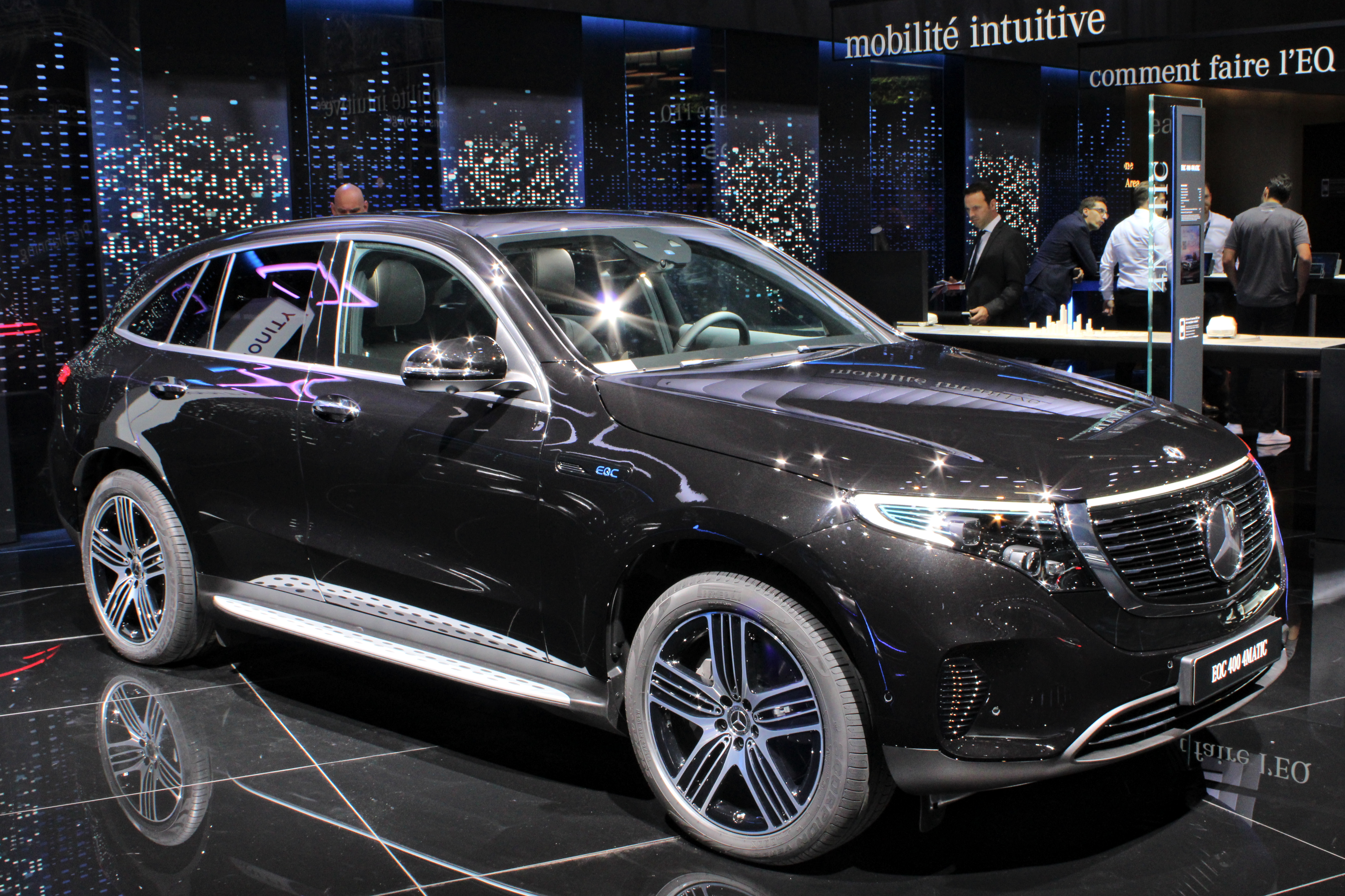 Mercedes-Benz EQC at Paris Motor Show 2018